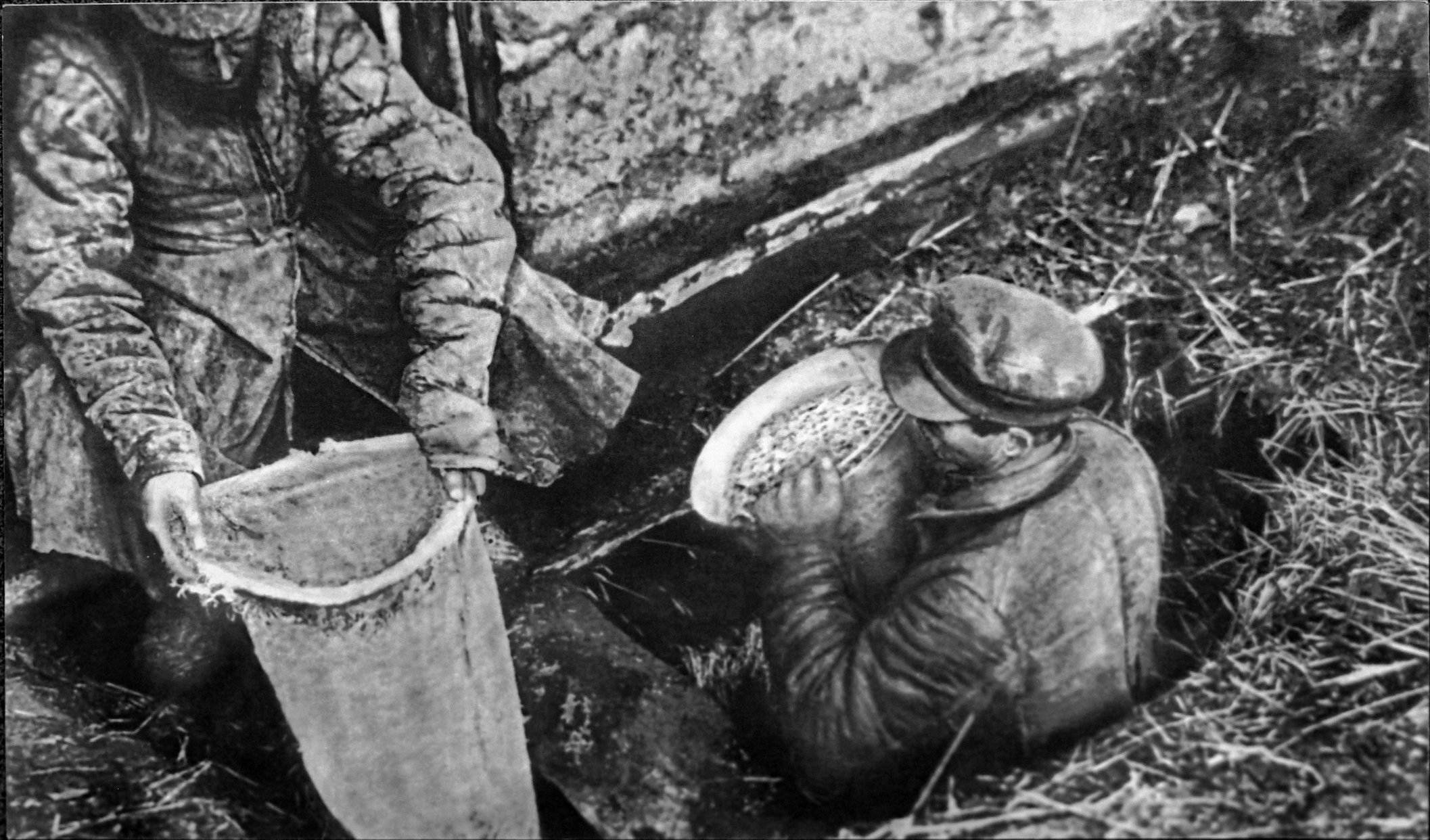 OGPU members excavating hidden grain from a pit.